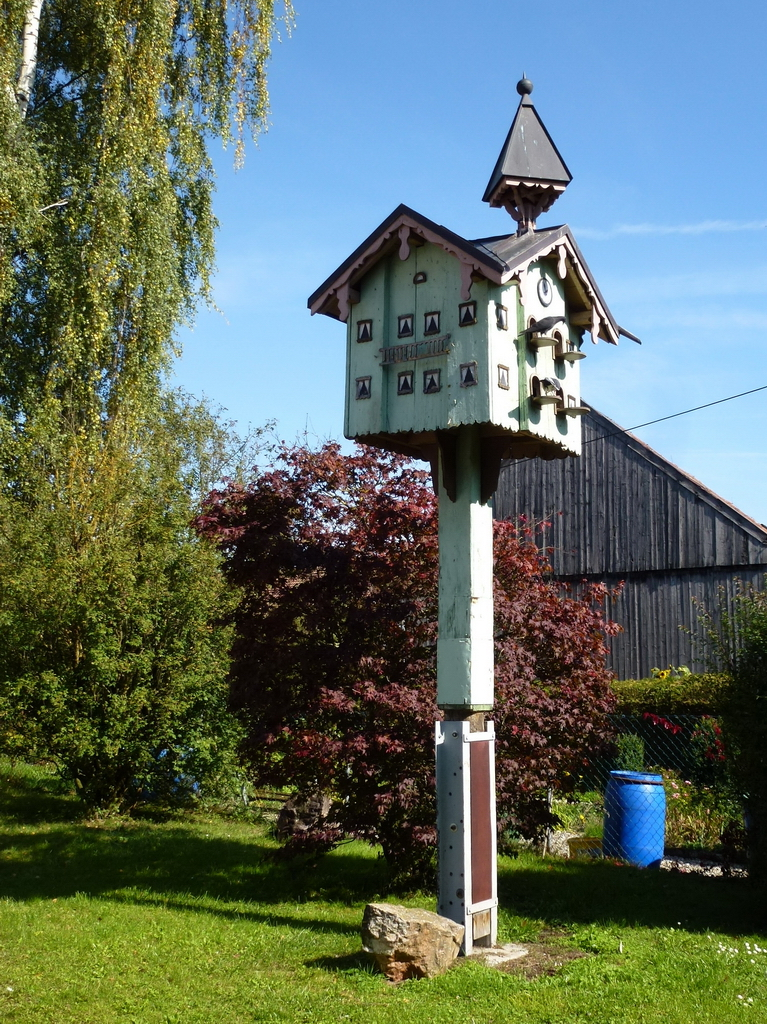 Alling, Am Weinberg 5. Ehemaliger Taubenkobel der Obermühle. This is a photograph of an architectural monument.